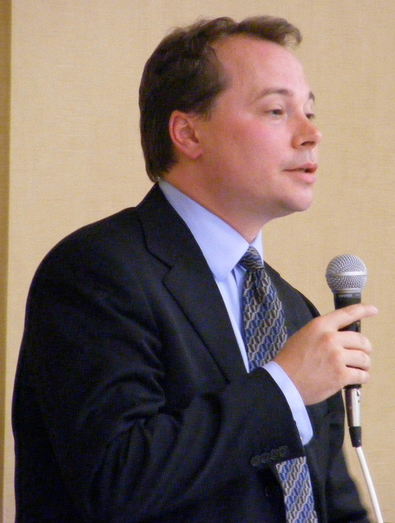 Mark Dyrholm, candidate, at Wildrose Alliance Leadership Forum